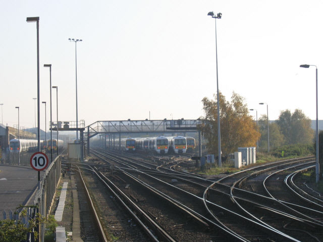 Slade Green rail depot. Depot maintaining electric units for Southeastern Trains, seen from the platform end of Slade Green station. The curve to the right is the line to London via Bexleyheath, and straight ahead is the main line to Dartford.